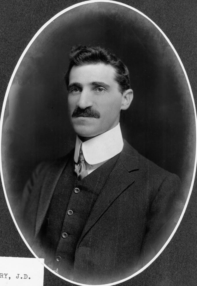 Portrait of J. D. Story, Queensland Public Service Commissioner, 1920–1939. Brisbane's Story Bridge was named in his honour.